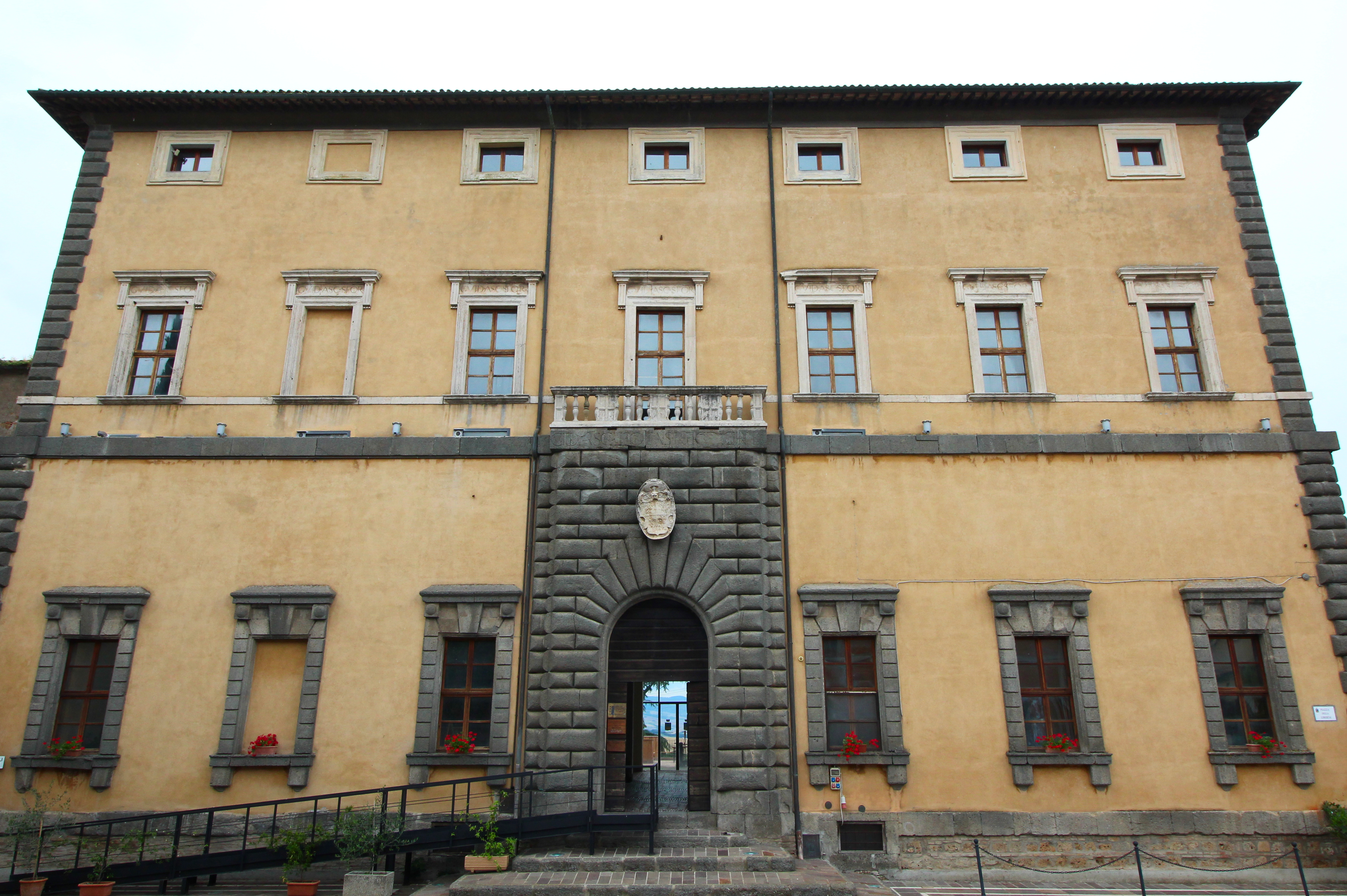 Palazzo Sforza, Proceno, Province of Viterbo, Lazio, Italy